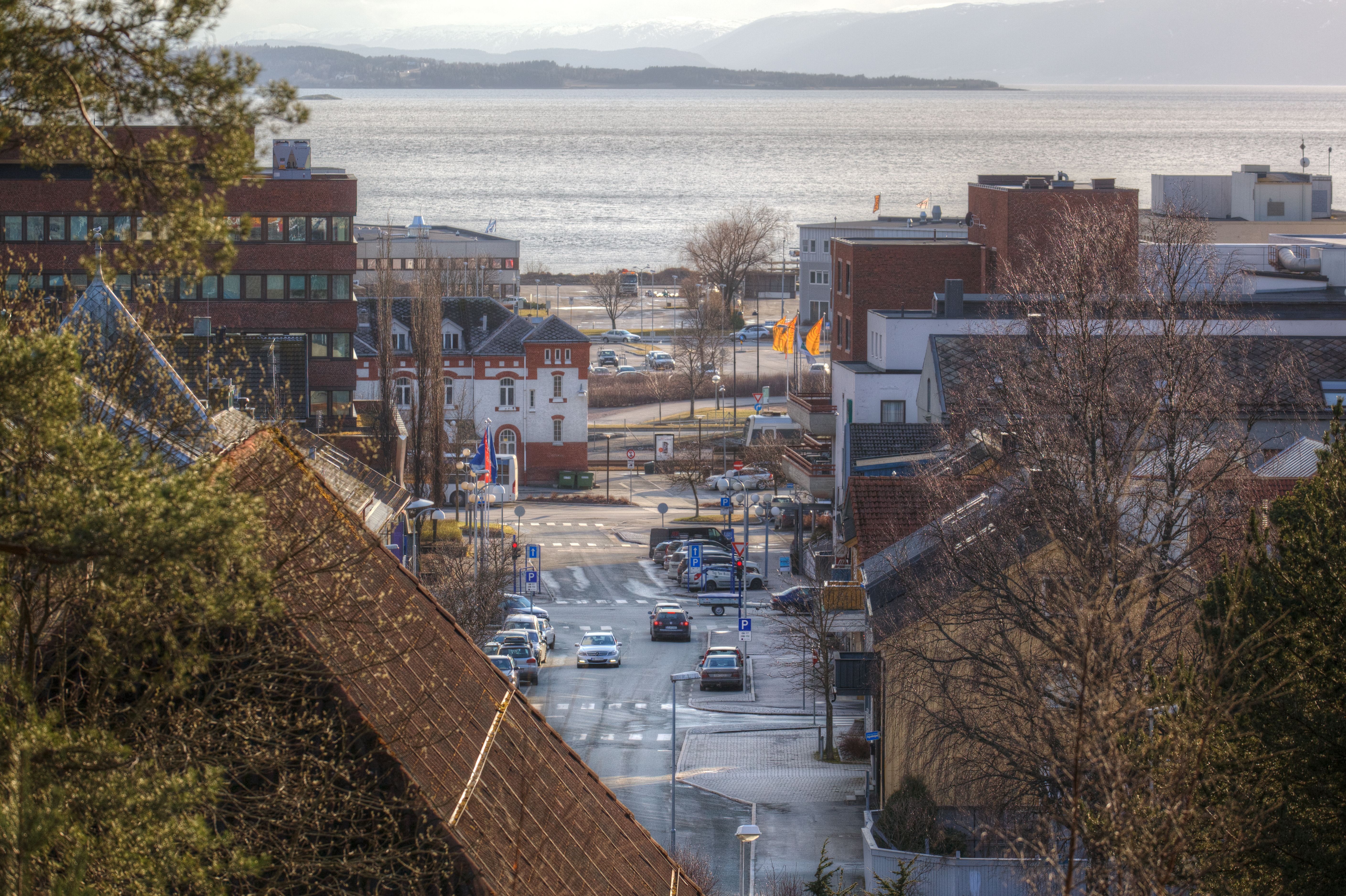 Steinkjer and the Beitstad fjord.